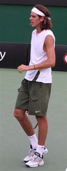 Juan Martín del Potro at the 2007 Australian Open